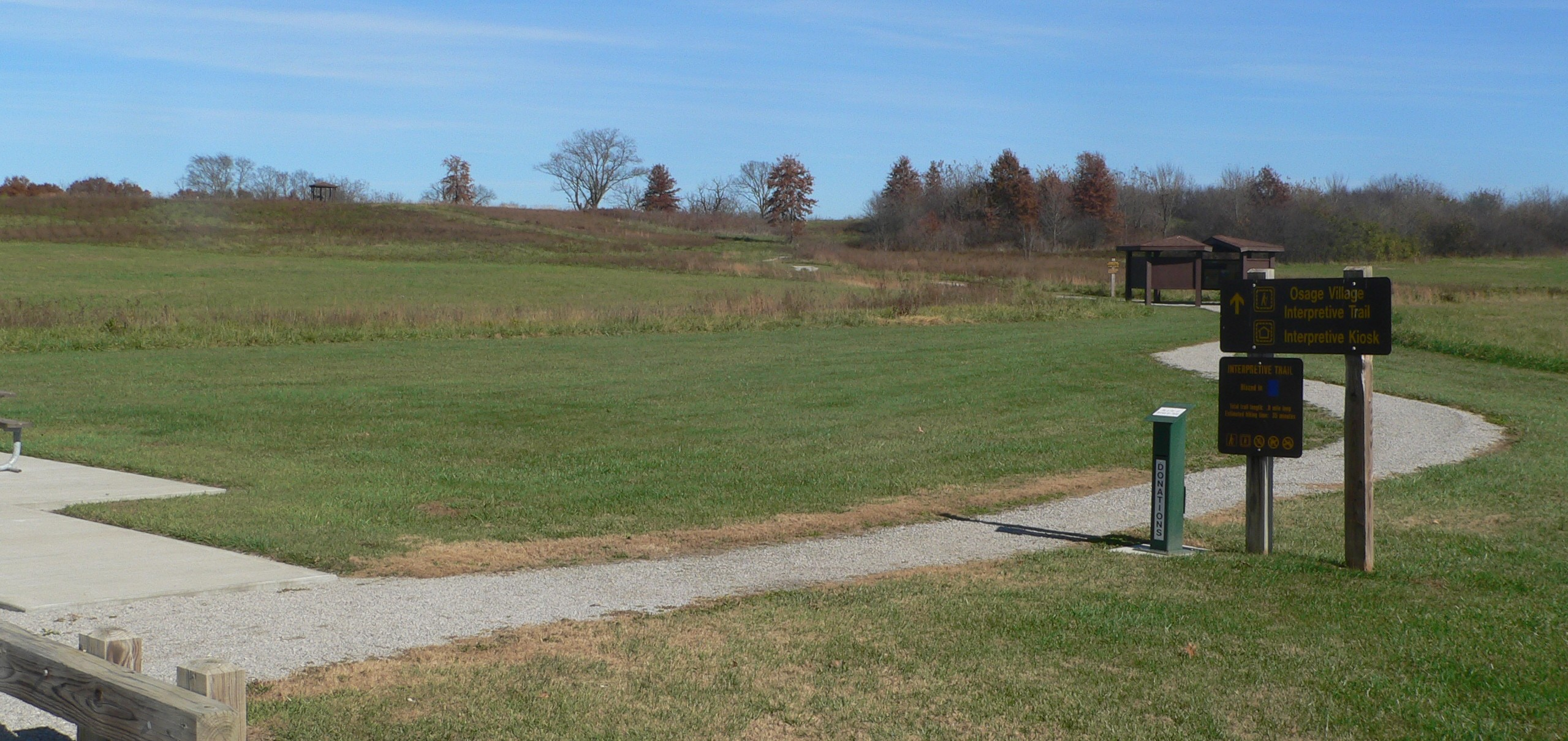 Osage Village State Historical Site, northwest of Harwood in Vernon County, Missouri. Camera is facing northeast from the parking lot.